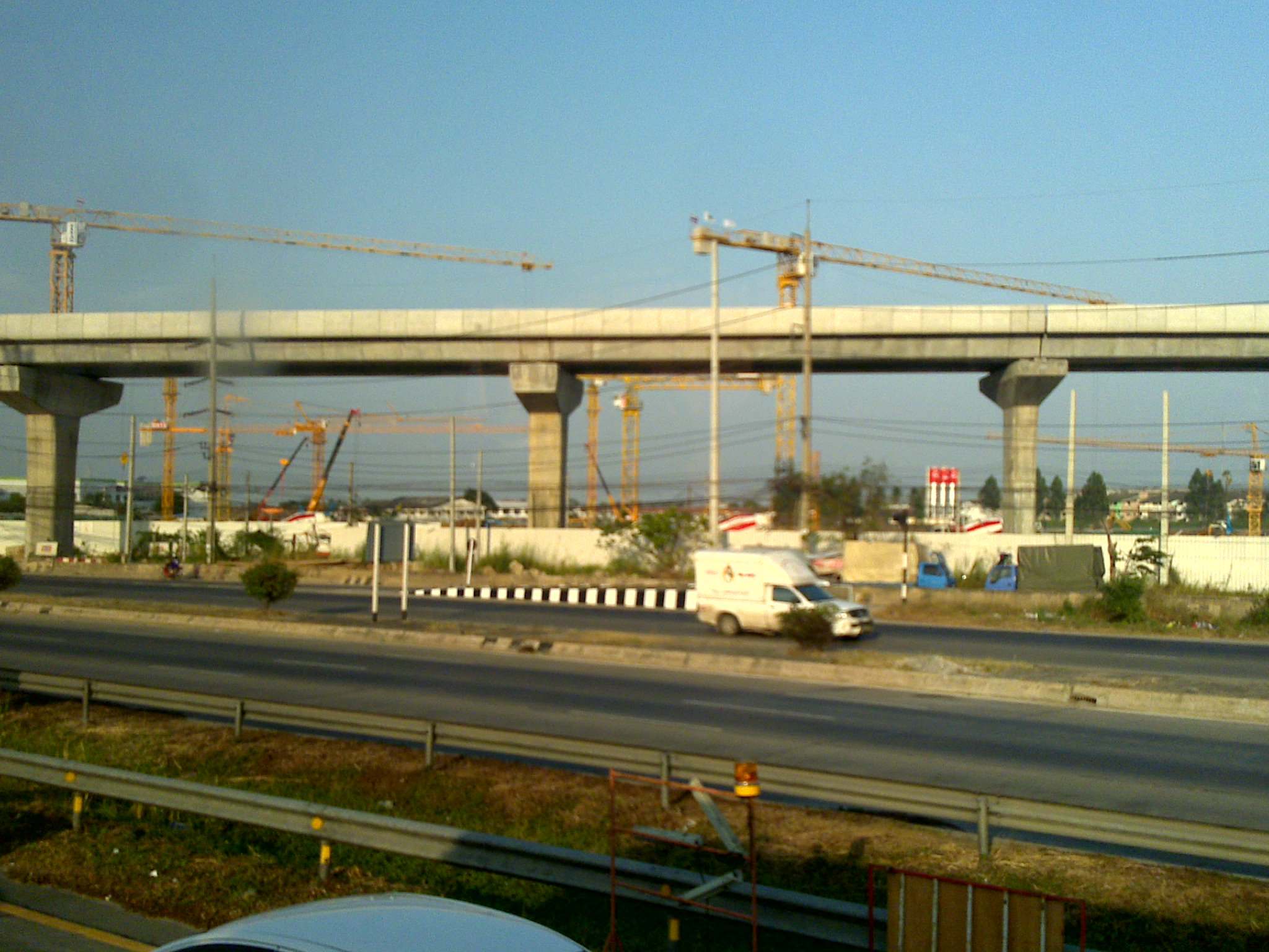 MRT Purple Line under construction on 20 December 2013 in Bangkok